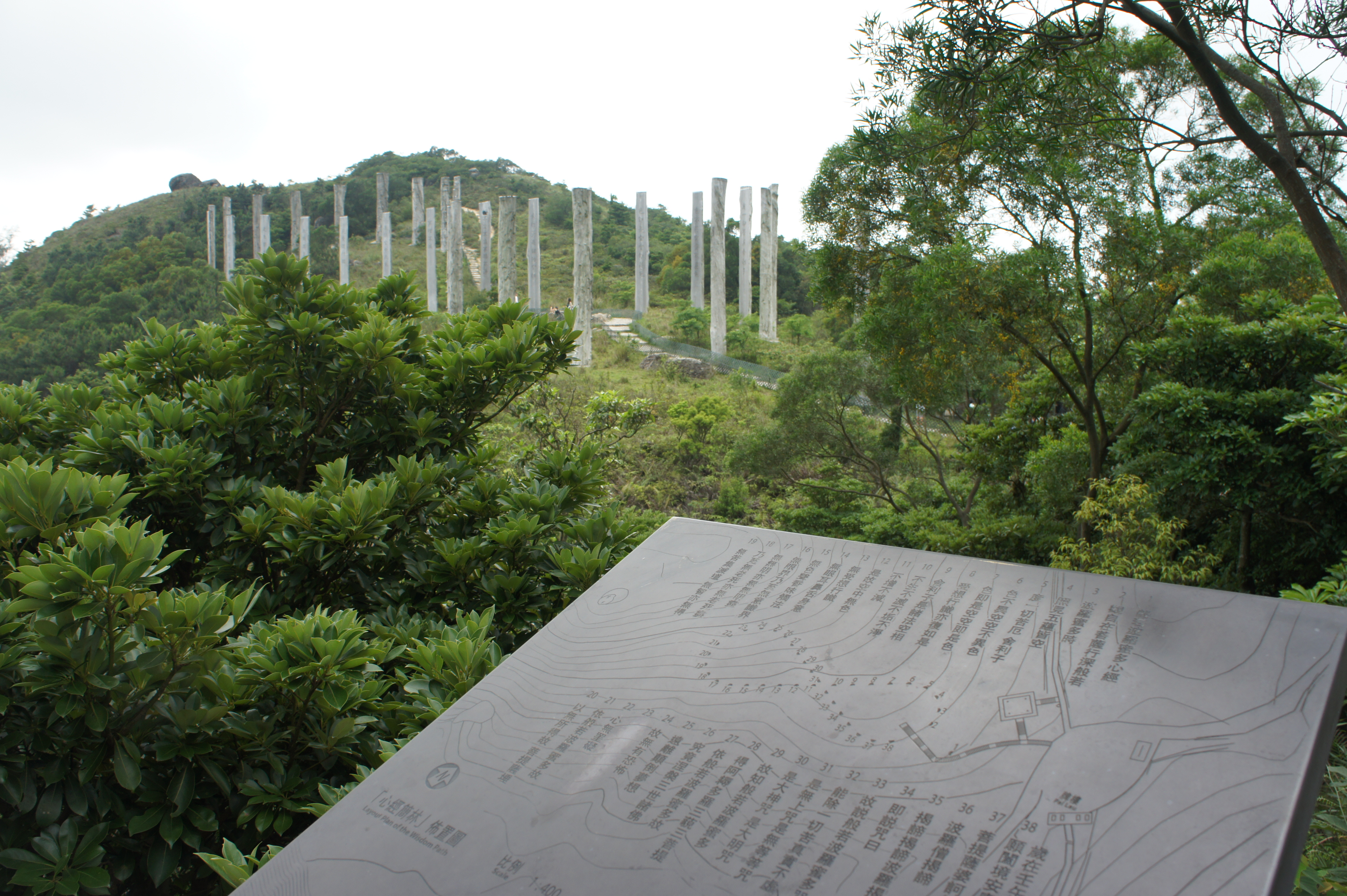 Viewing the Wisdom Path (Ngong Ping, Lantau Island) from the viewing platform.